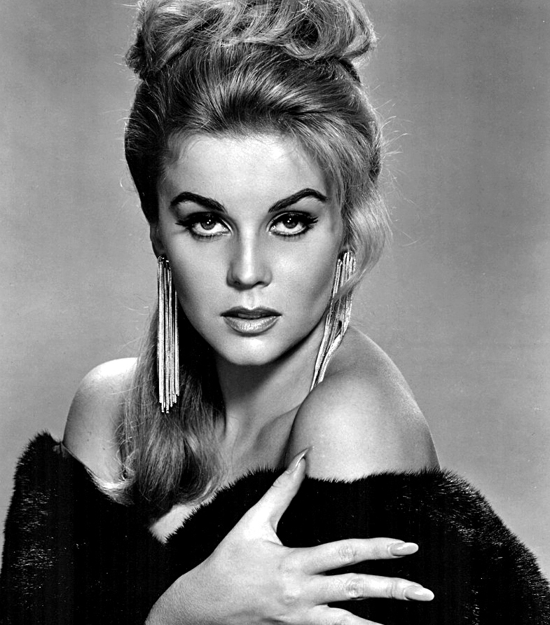 Studio original publicity photo of Ann-Margret.